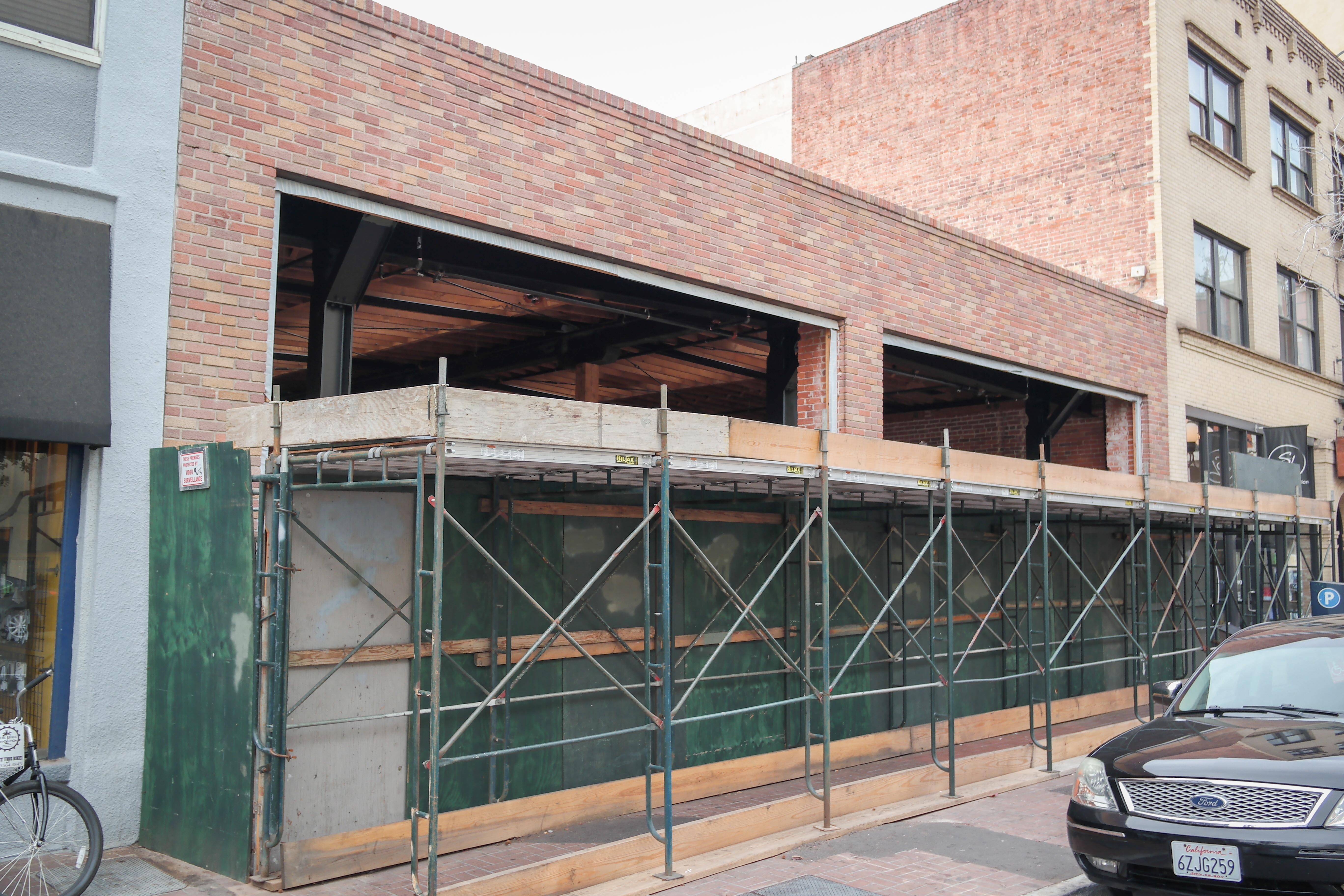 Historic Building Survey plaque: "80 Sterling Hardware Building, 1887. Numerous and complicated title transfers are recorded since 1867 when Alonzo Horton first sold this lot for $150. In 1889, half the building was leased to Ramona Wolf whose name was probably used by Helen Hunt Jackson for the novel Ramona, the somewhat fictional account of the eviction of the Temecula Indians. The Standard Theatre later operated with vaudeville variety shows. In 1904, Moritz Trepte, a German immigrant and carpenter, purchased the north half for $10. Trepte became 'one of the Pacific Southwest's leading contractors.' The Sterling Company, seller of second-hand goods, had the entire building until the 1970s."